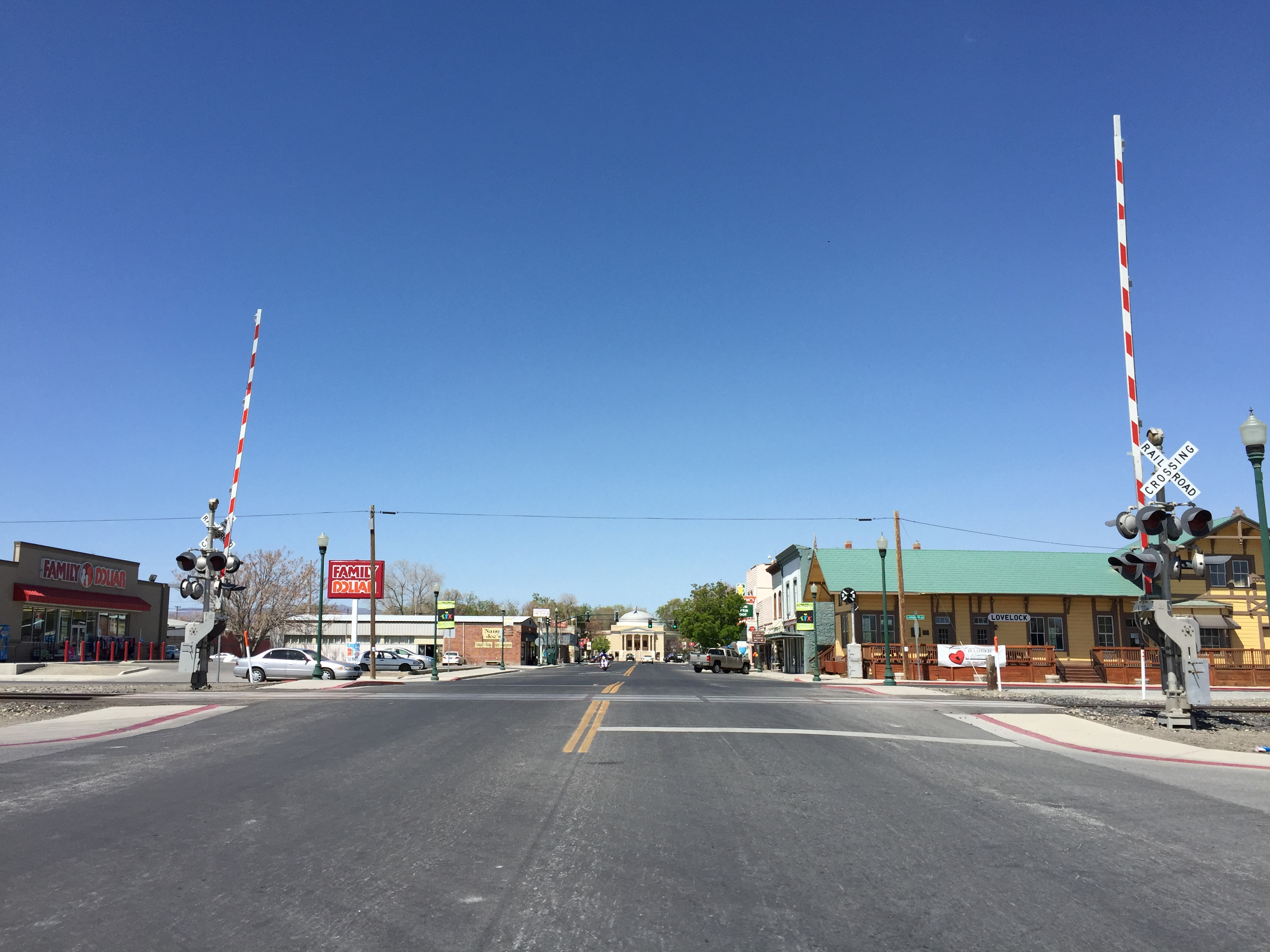 View northwest along Main Street (Nevada State Route 398) near the Central Pacific Railroad Depot in Lovelock, Nevada